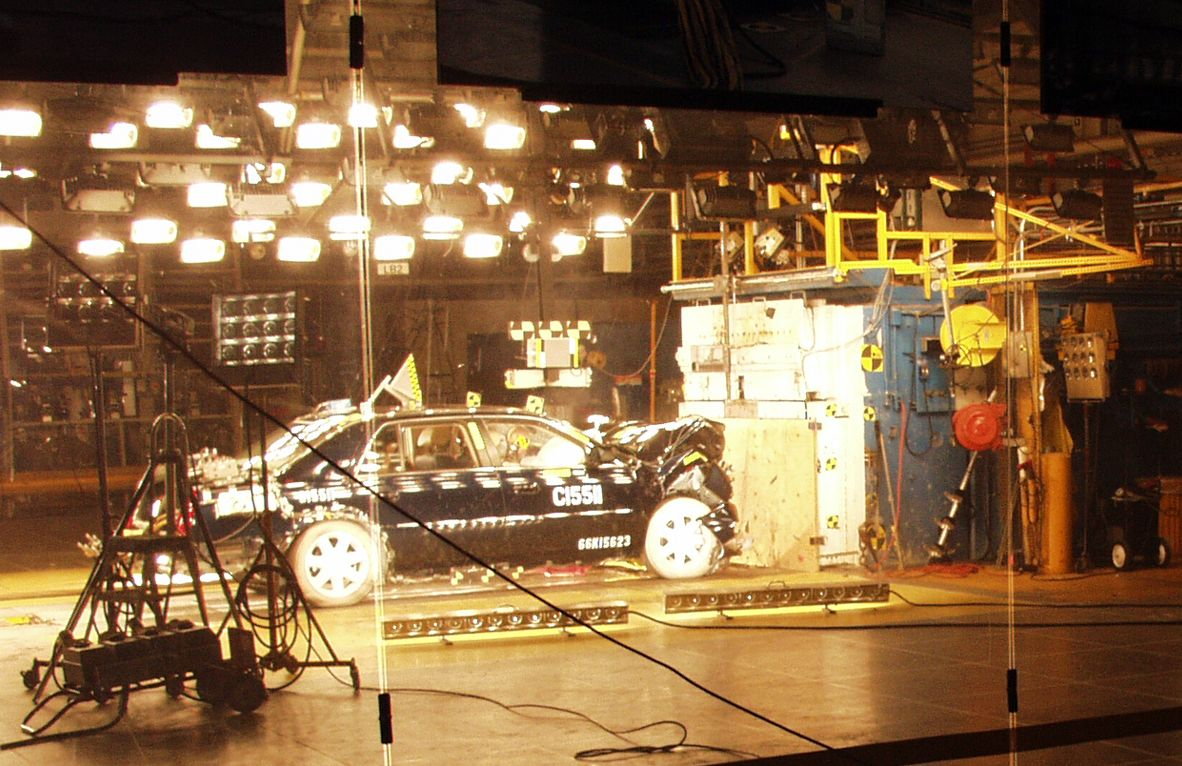 Vehicle crash test at the General Motors Vehicle Safety and crash Worthiness Laboratory